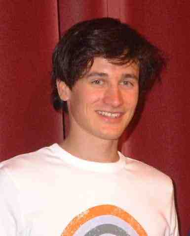 German ski jumper Martin Schmitt